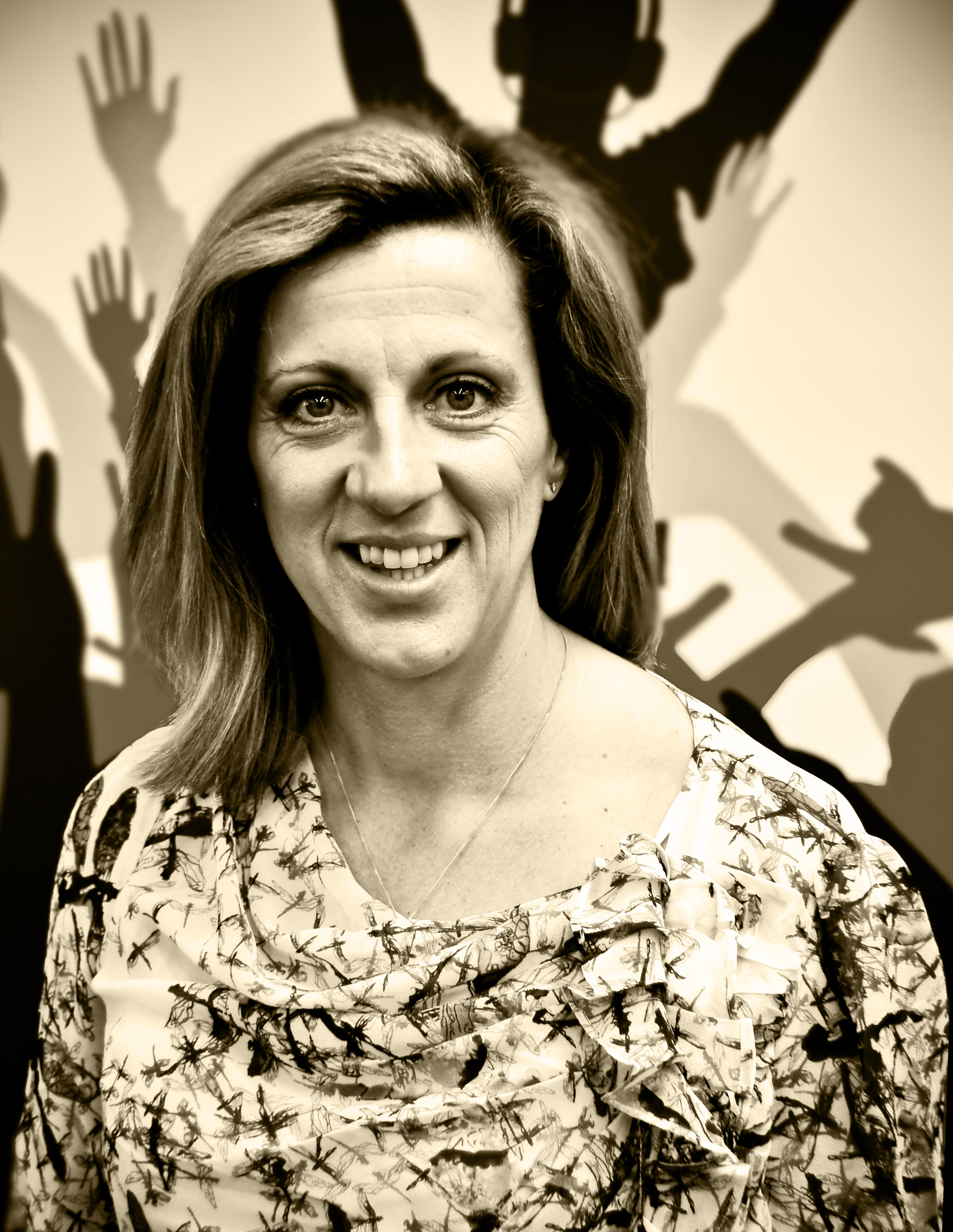 Sally Gunnell, January 2010, O2, Slough